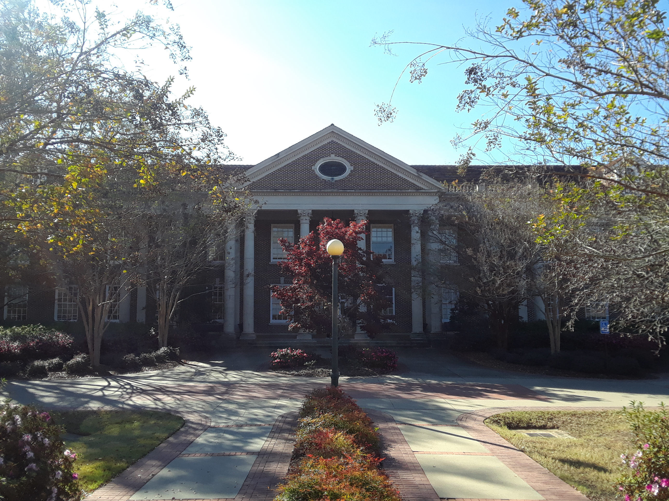 University of Mississippi Bondurant Hall Front